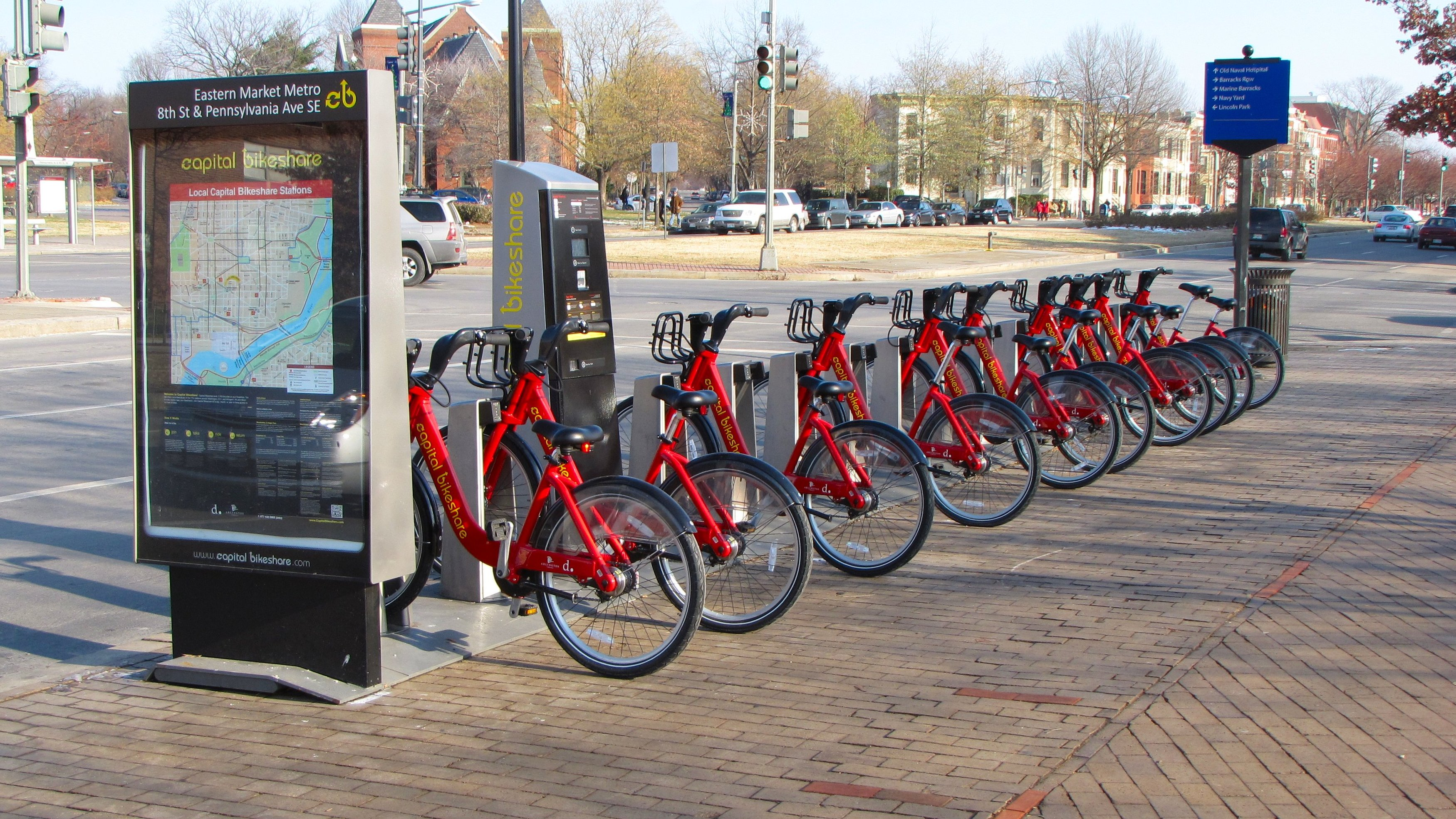 Capital Bikeshare station outside of the Eastern Market Metro station.